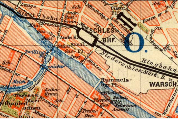 A part of a townguide for Berlin from 1895